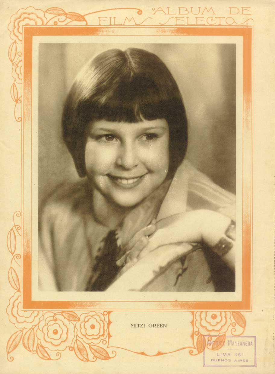 Publicity photo of Mitzi Green for Argentinean Magazine. (Printed in USA)